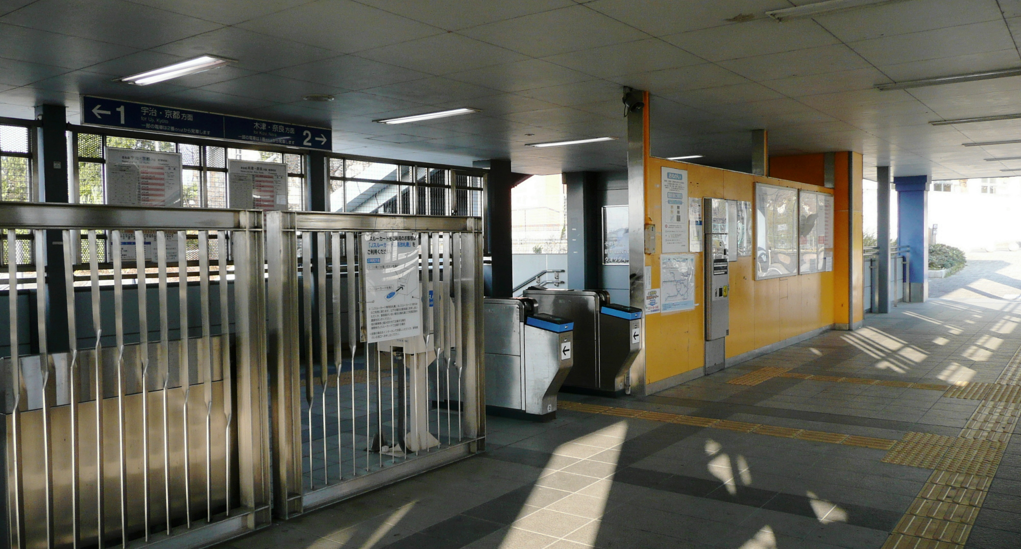 West Japan Railway Nara Line Yamashiro-Taga Station ticket gate